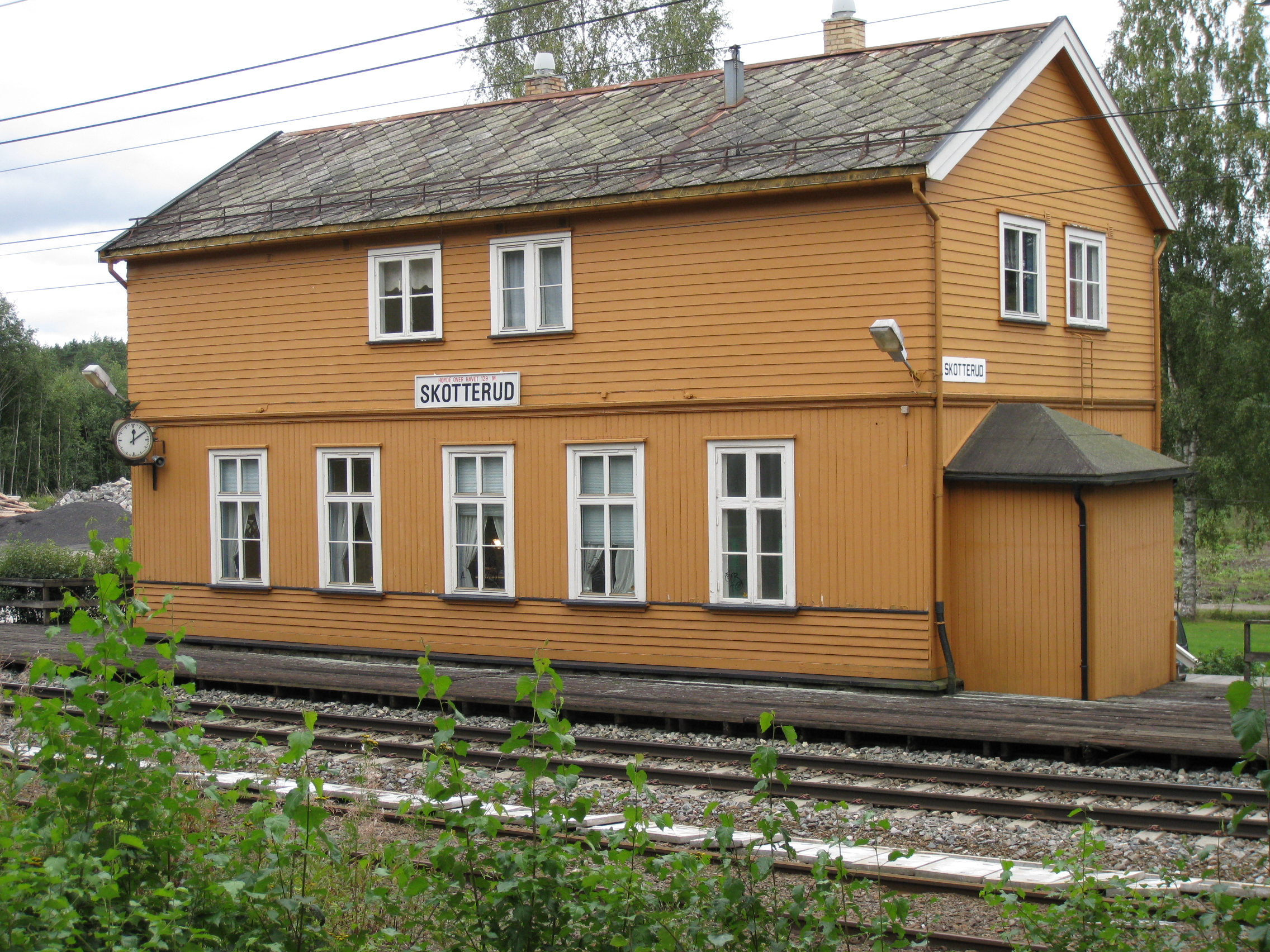 Skotterud station, Norway